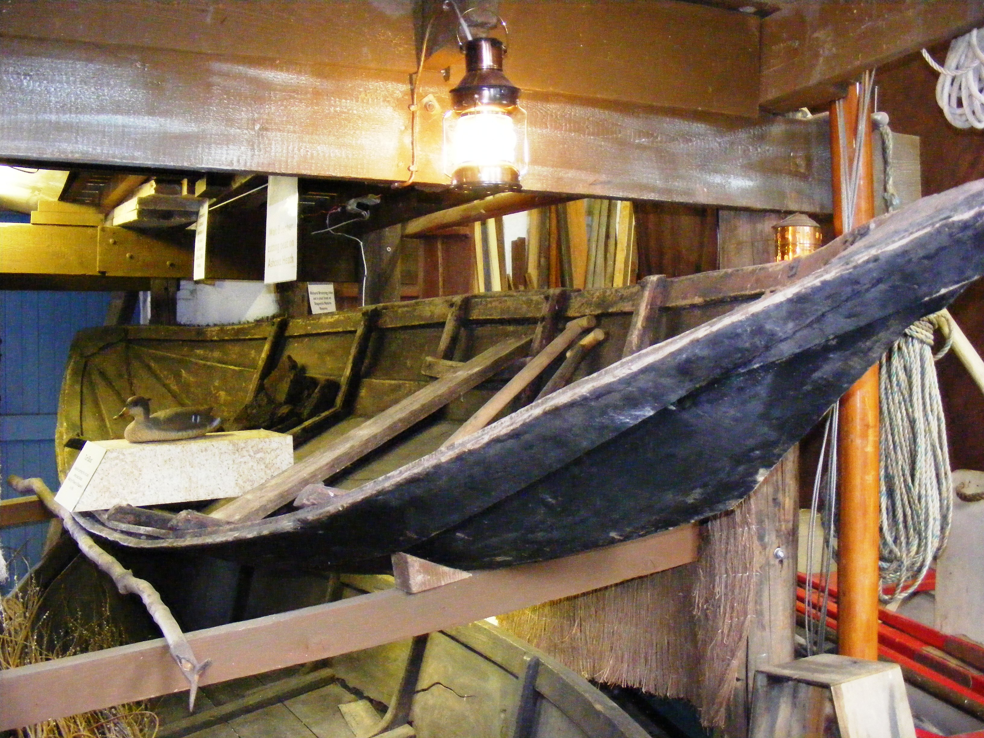 Flatner Turf Boat on display at the Watchet Boat Museum